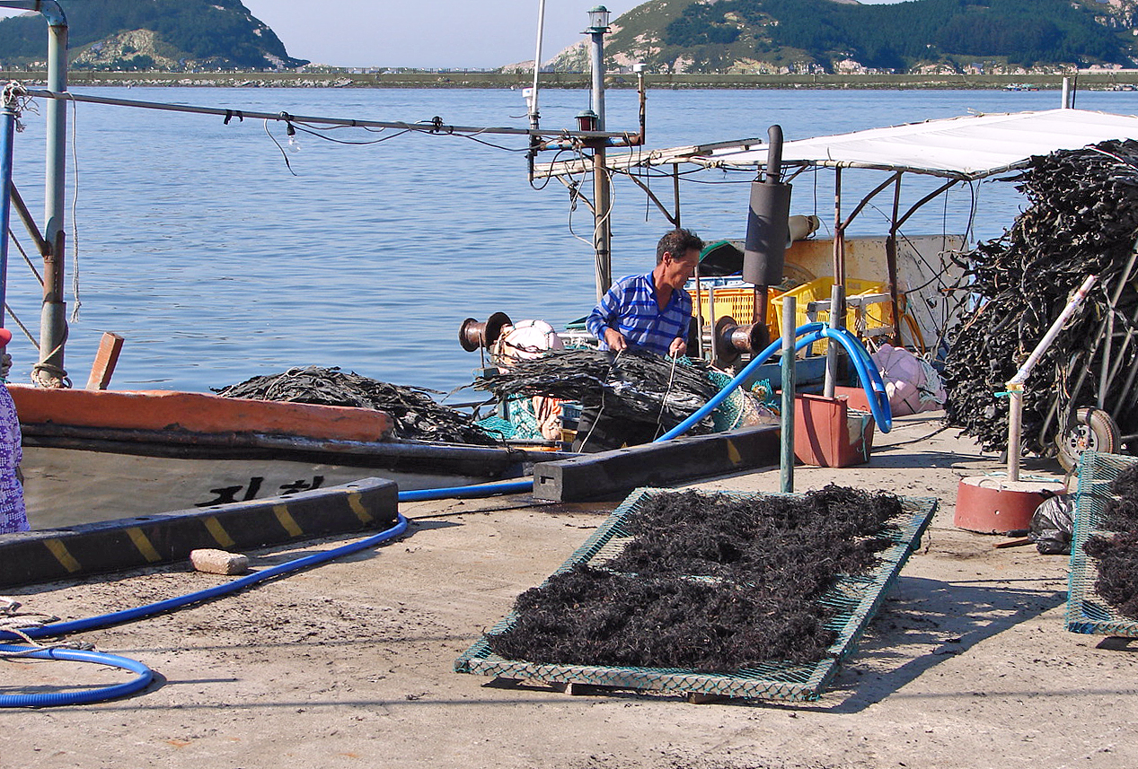 Heuksando is an island in the Yellow Sea located 60 mi from the southwest coast off the port of Mokpo covering an area of 7.6 square miles. Heuksando has about 3,133 residents.